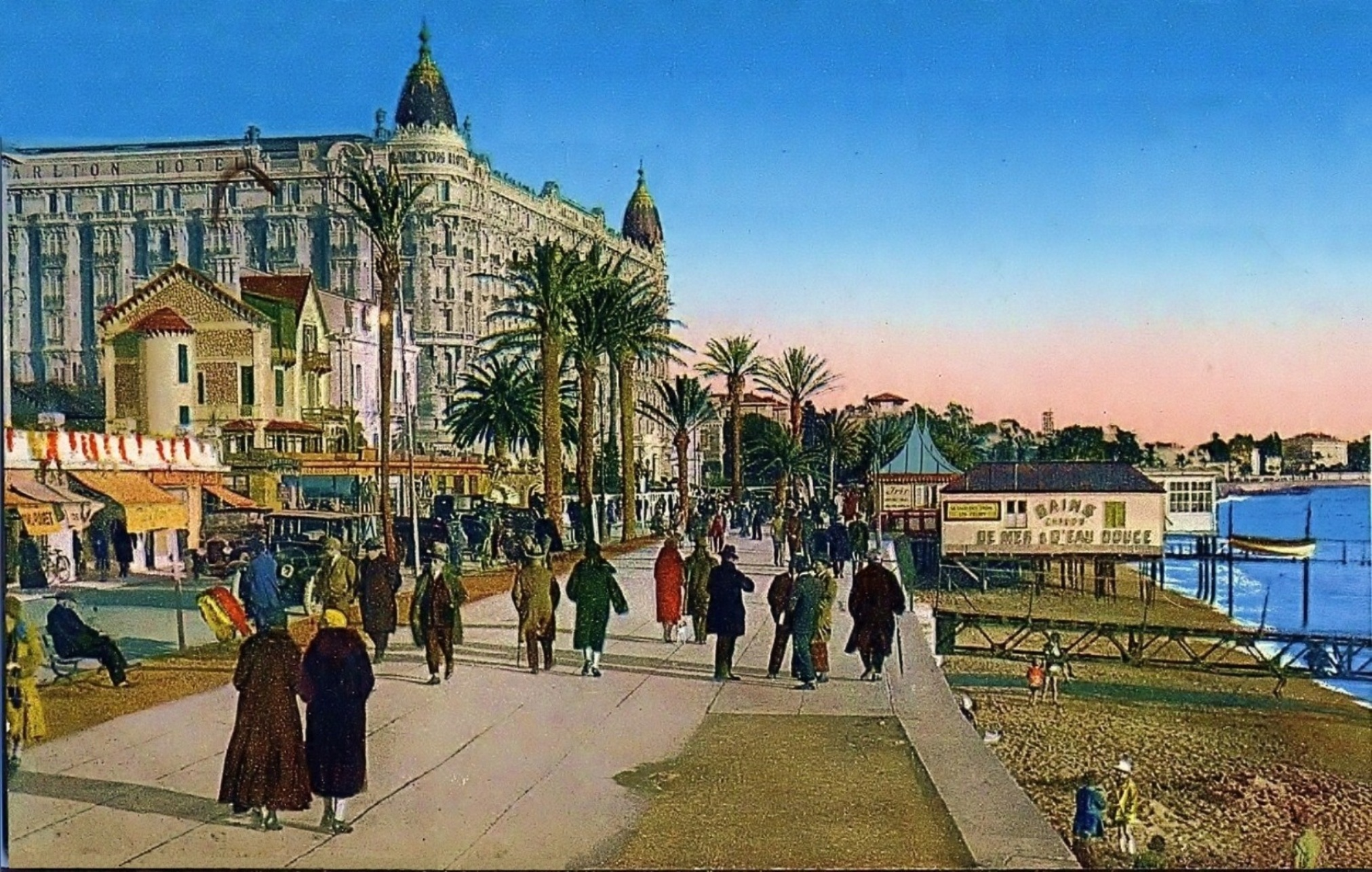 Colorized photograph of the Cannes Croisette in the 1930s for the postcard edition.